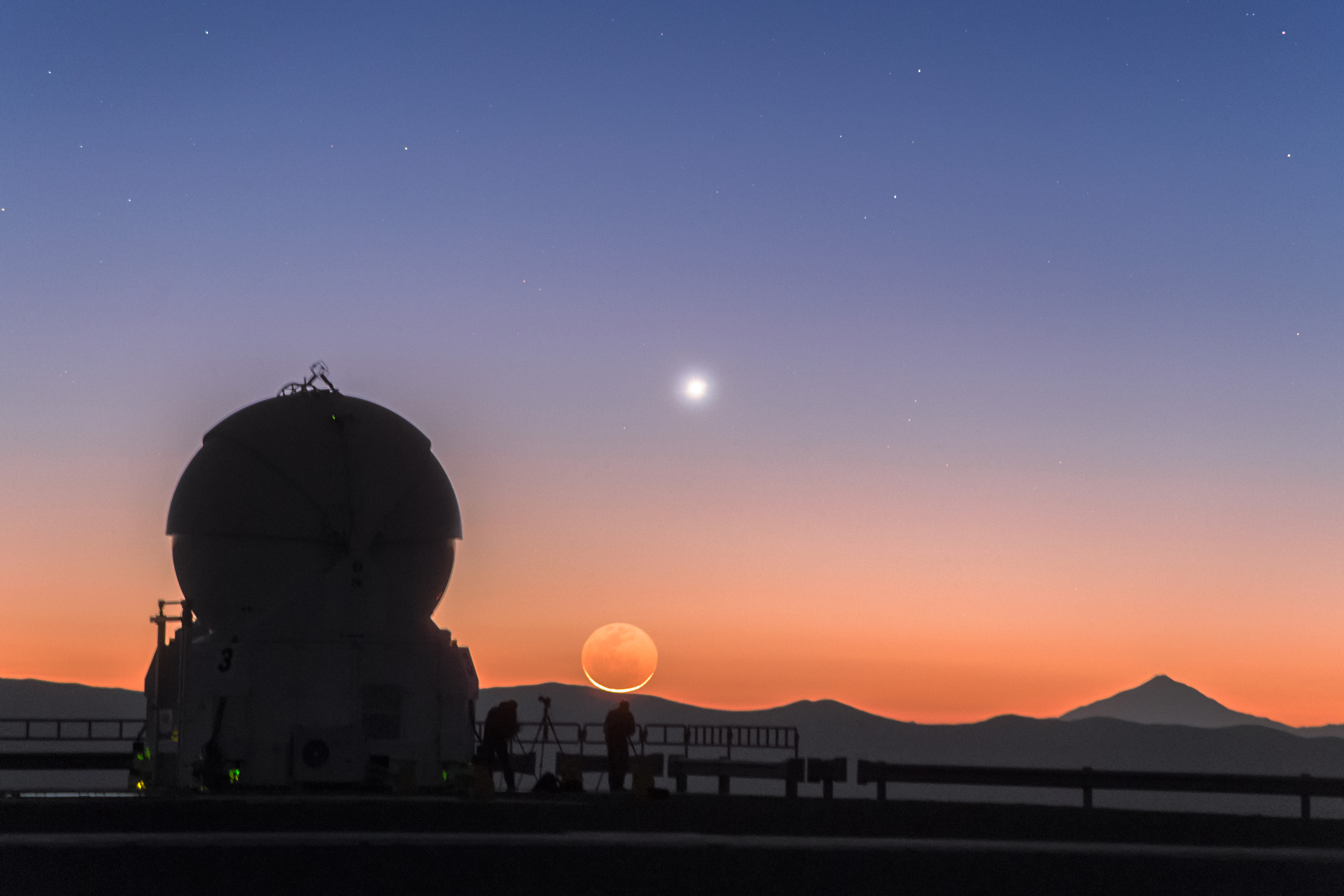 As the Sun raises at Cerro Paranal, in Chile, filling the sky with superb orange shades, two members of the ESO Fulldome Expedition, Babak Tafreshi (left) and Yuri Beletsky (right), are preparing their tripods and cameras for the day ahead. Above the silhouette of the Chilean mountains, the gentle smile of a crescent Moon and the bright planet Venus strike a pose for the cameras. Thanks to a phenomenon called earthshine, the entire disc of the Moon can be seen shining in light reflected off the Earth. The telescope in silhouette in front is an Auxiliary Telescope (AT), part of Very Large Telescope (VLT) at ESO's Paranal Observatory. This twilight moment was captured by ESO Photo Ambassador Petr Horálek, while participating in the ESO Fulldome Expedition which is gathering spectacular images for use in the ESO Supernova Planetarium & Visitor Centre, currently under construction at ESO’s Headquarters in Garching (near Munich), Germany.